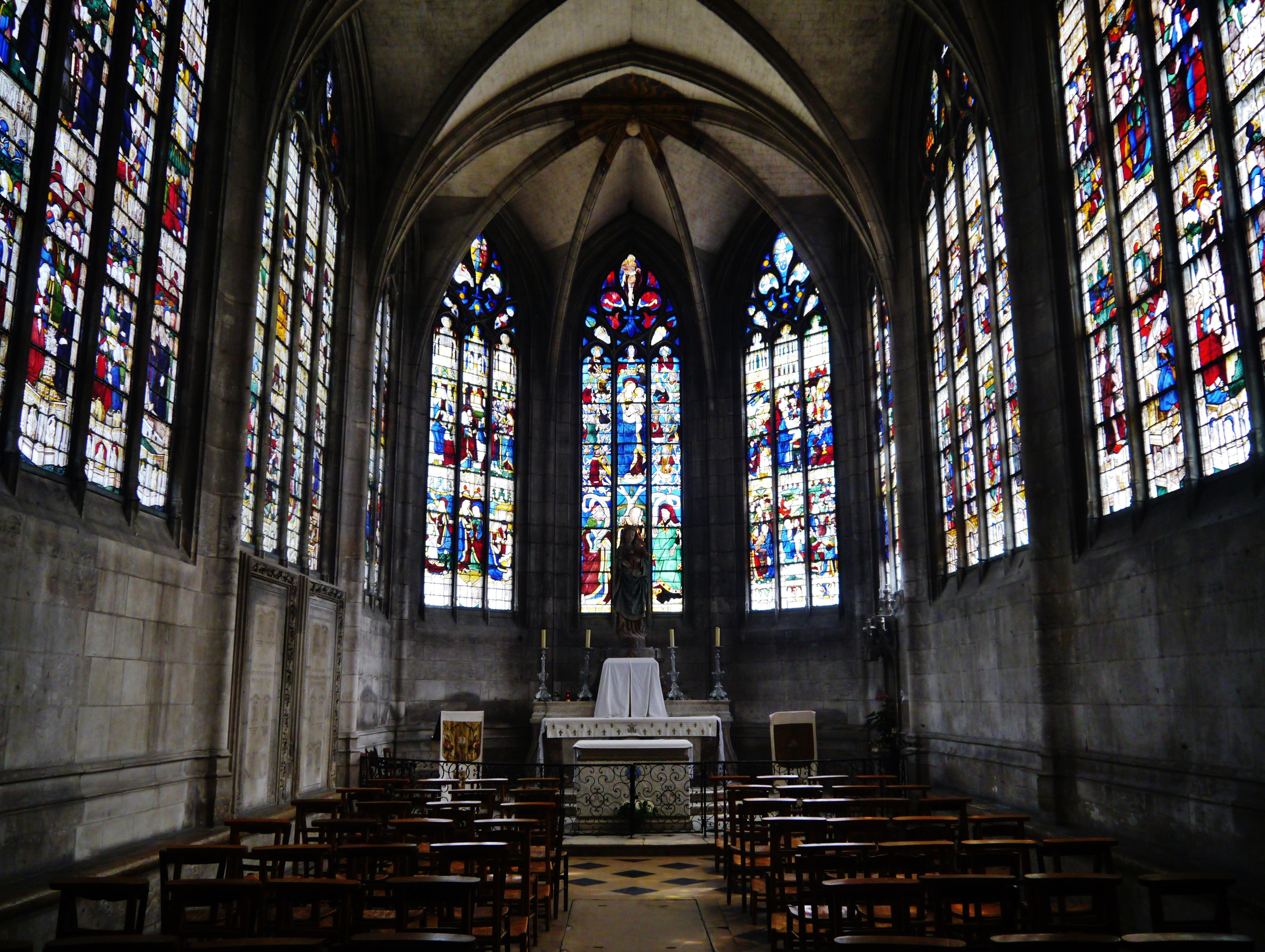 Ambulatory Chapel of the Cathedral of Our Lady, Évreux, Region of Normandy (former Upper Normandy), France